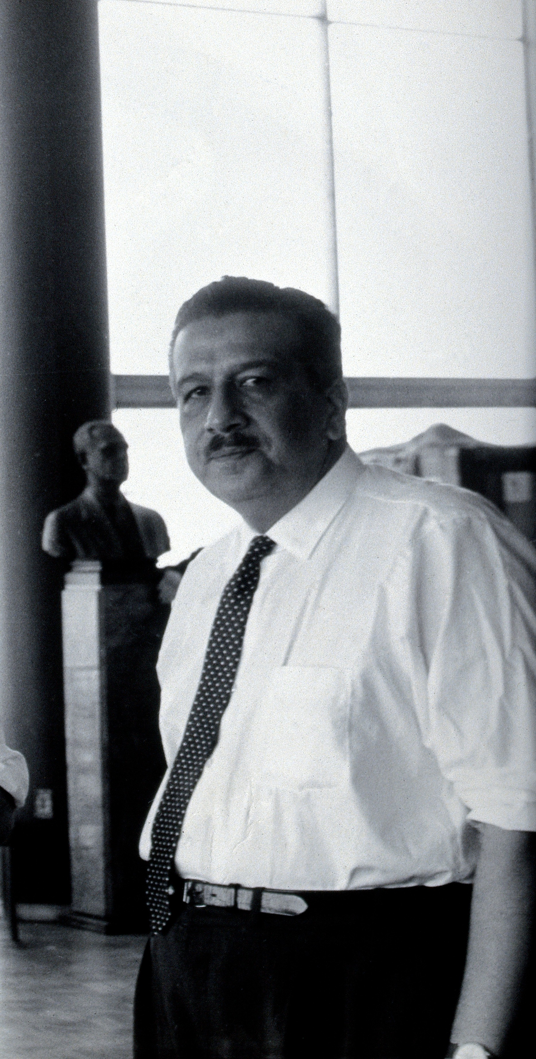 René G. Rachou, Brazilian biologist and malariologist. Photograph by L.J. Bruce-Chwatt. Iconographic Collections Keywords: portrait photographs